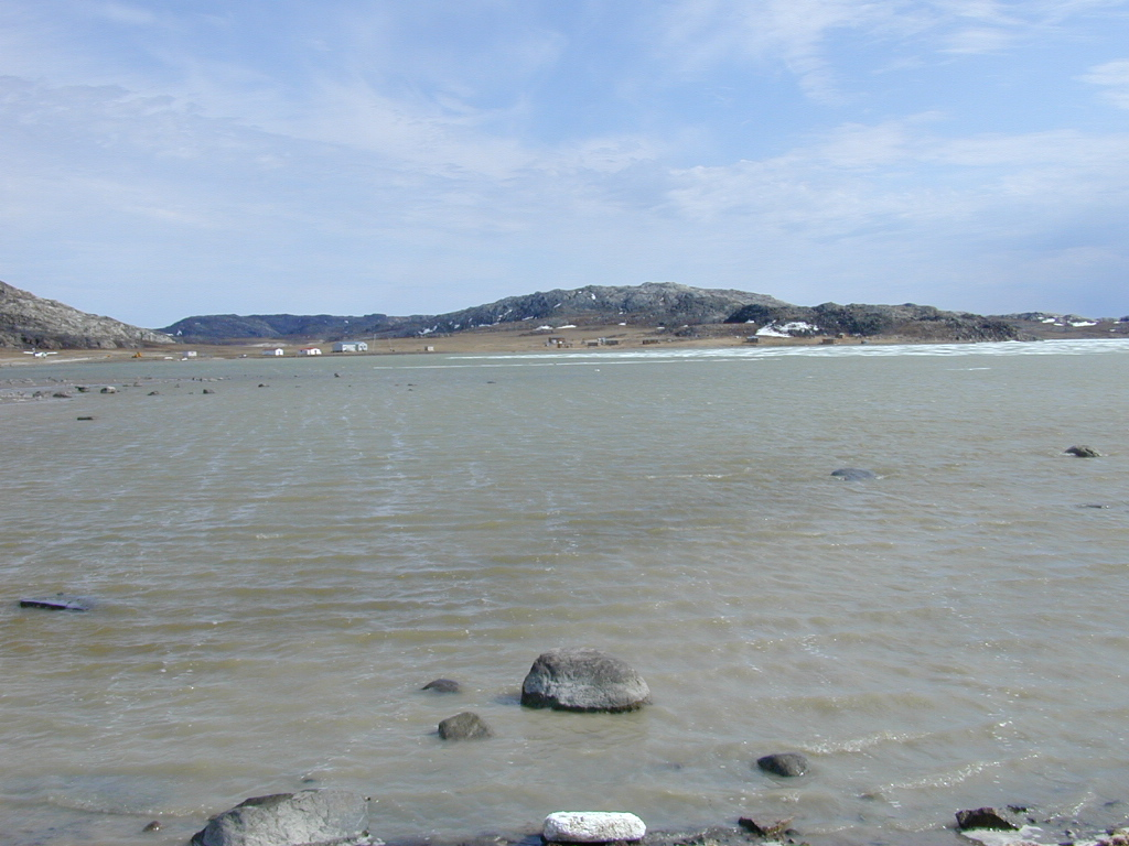 Umingmaktok 20th June 1999. Looking across the bay towards the Co-op store. On the far left can be seen the Twin Otter aircraft used to access the community. To the right of the plane are two small buildings painted in the traditional red and white colours used by the Hudson's Bay Company and next to them is the store.